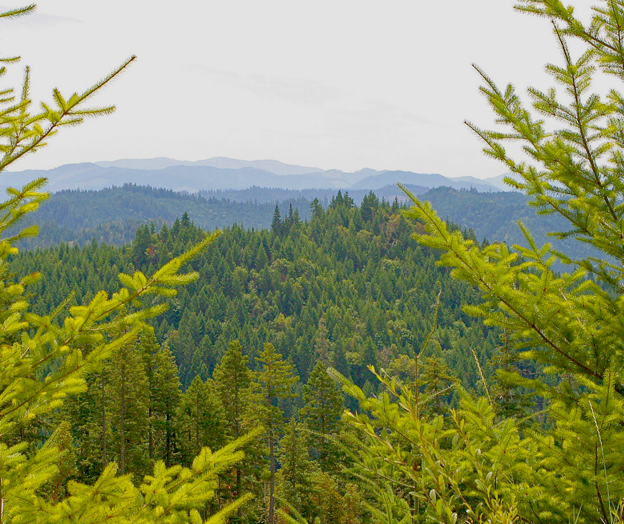 Oregon Forestry